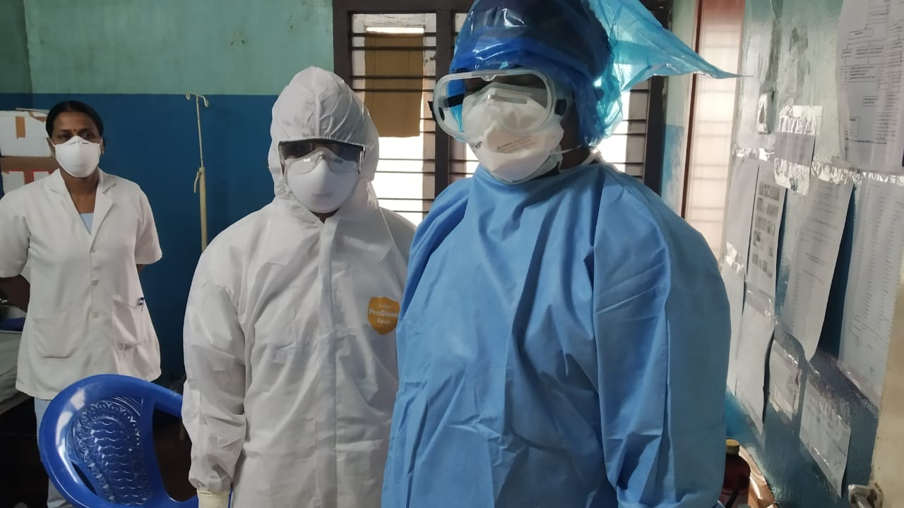 Healthcare workers wearing personal protective equipment while caring for patients with coronavirus infection in the Indian state of Kerala.